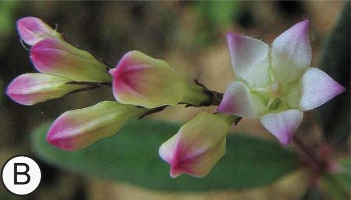 Spigelia genuflexa. Flowers at anthesis and before opening. Note valvate and vertically folded petal lobes